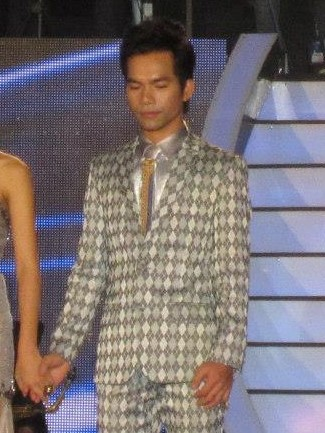 Photo depicts Ya Suy at the grand finale of Vietnam Idol season 4 on February 1, 2013